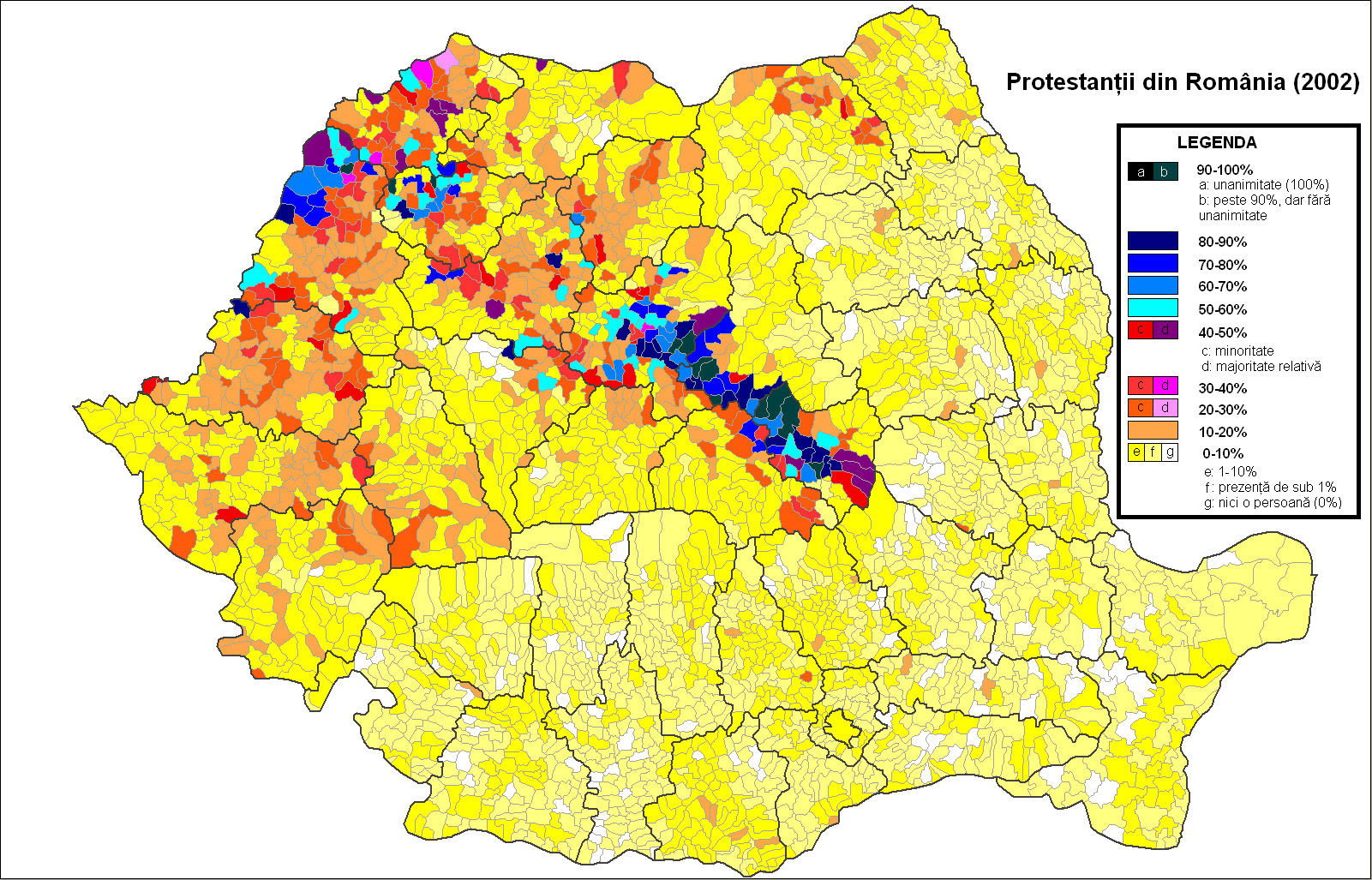 The distribution of the Protestants (Reformed, Lutherans, Baptists, Pentecostals, Unitarians, Plymouth Brethrens, Adventists) in Romania (census 2002)